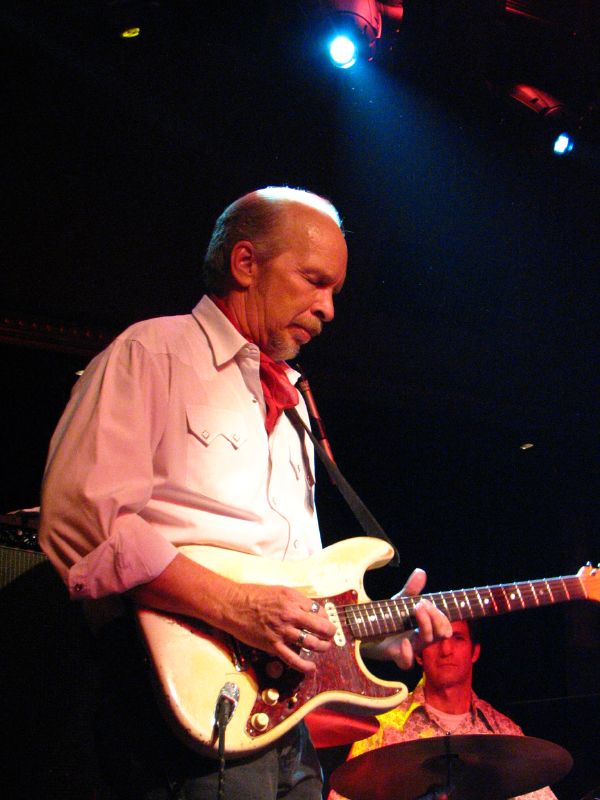 Dave Alvin (born 11 November 1955, in Downey, California).